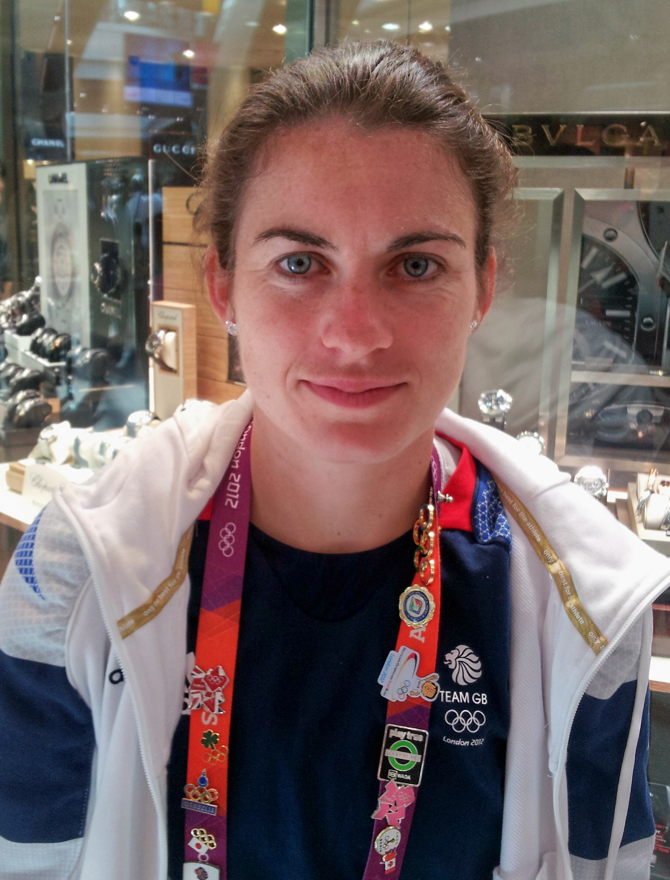 English international football winger Karen Carney at The London 2012 Summer Olympic Games